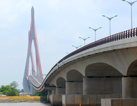 Can Tho Bridge